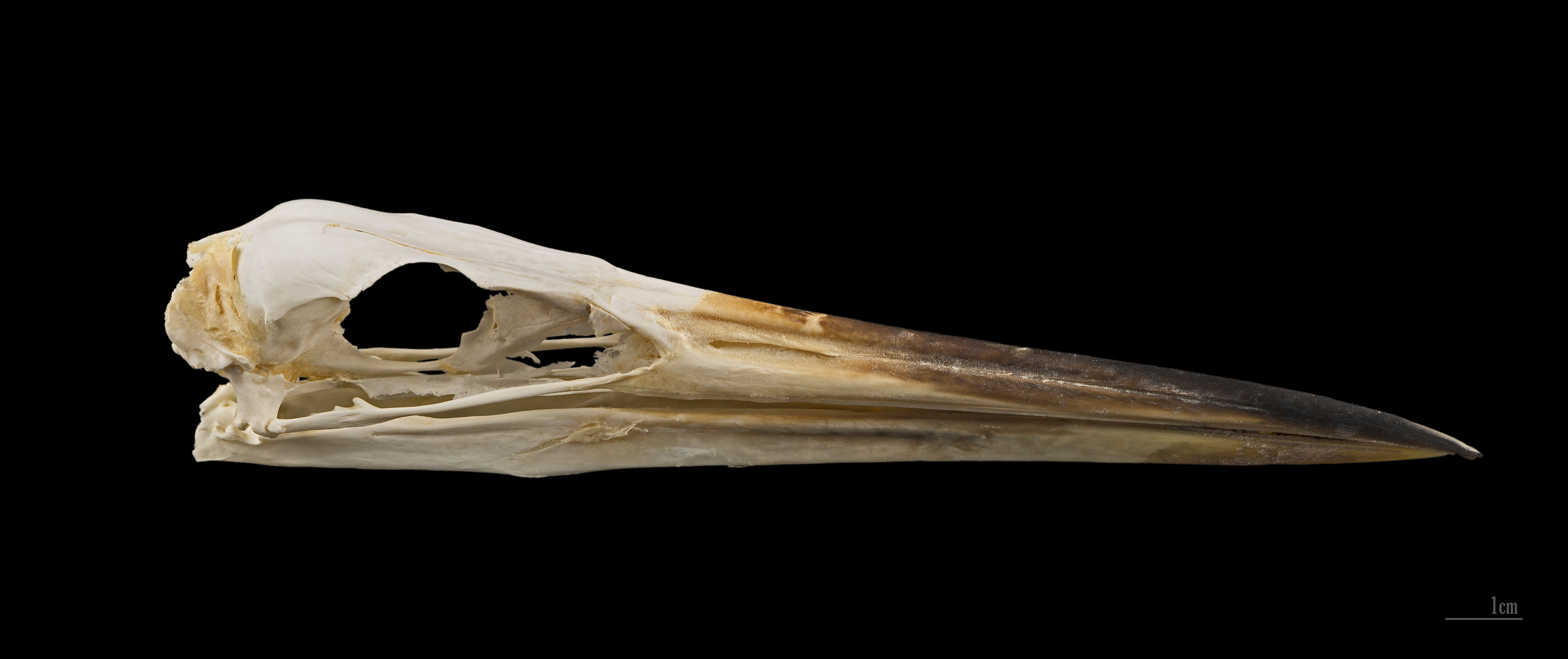 Skull of Grey Heron.